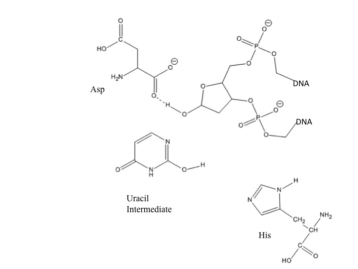 Uracil intermediate leaves the DNA helix; hydrogen bonding from the active site stabilizes the DNA backbone.